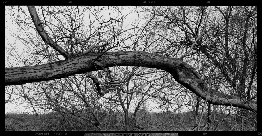 Photograph by Aleš Jungmann